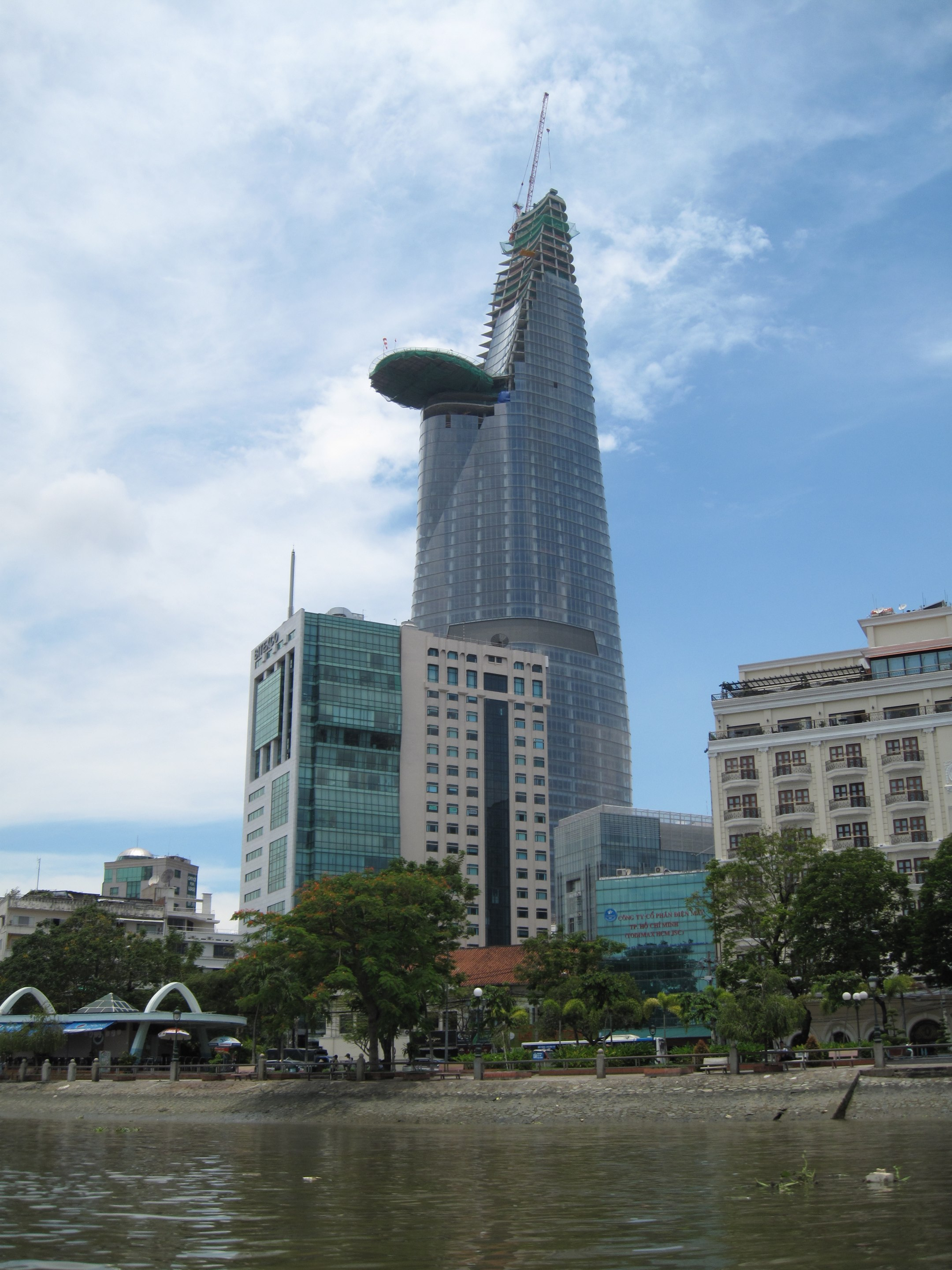 Bitexco Financial Tower towards the end of construction, Ho Chi Minh City.